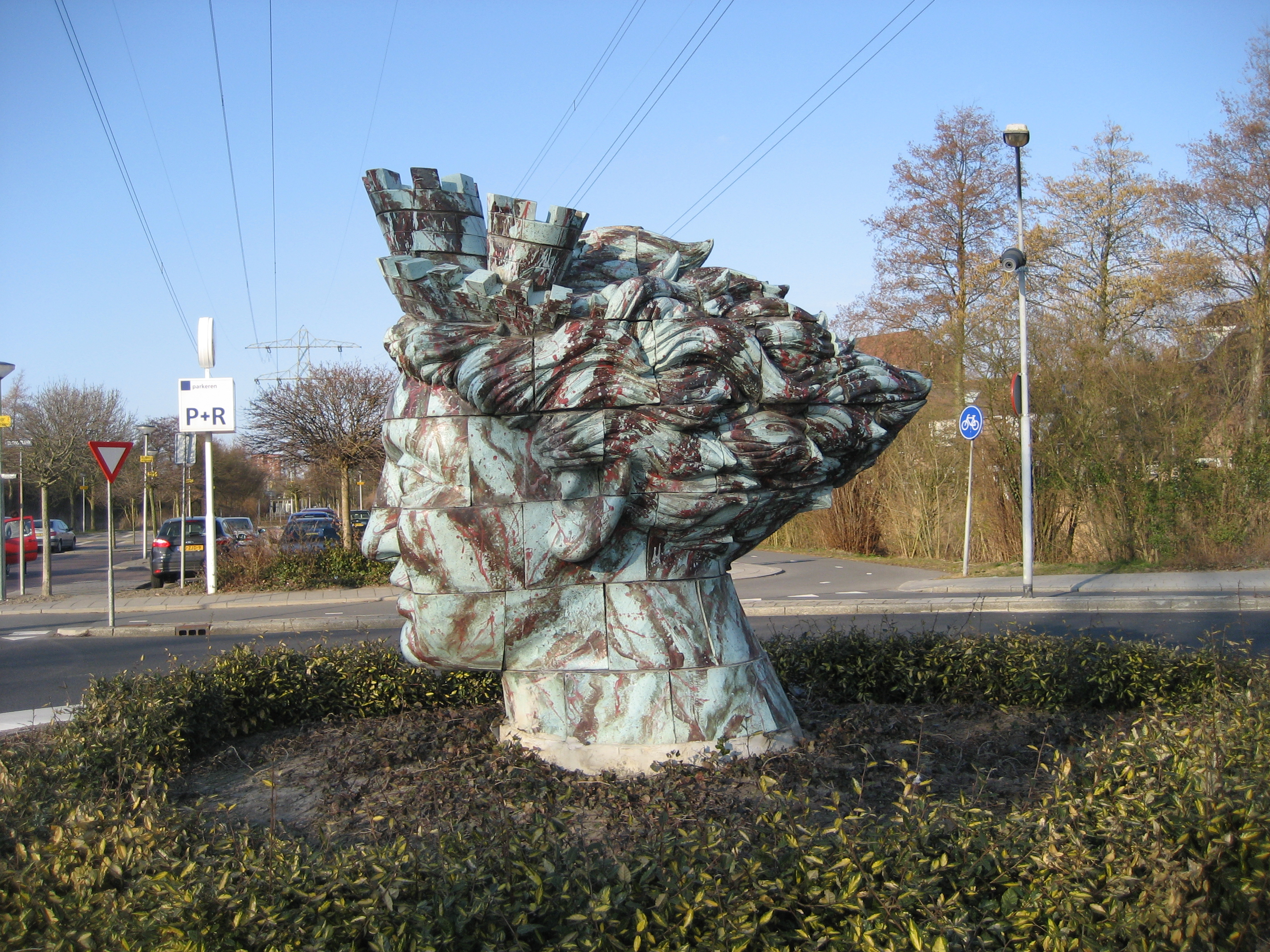 Deity Sybil, by Hans van Bentem, in Voorschoten (Netherlands)